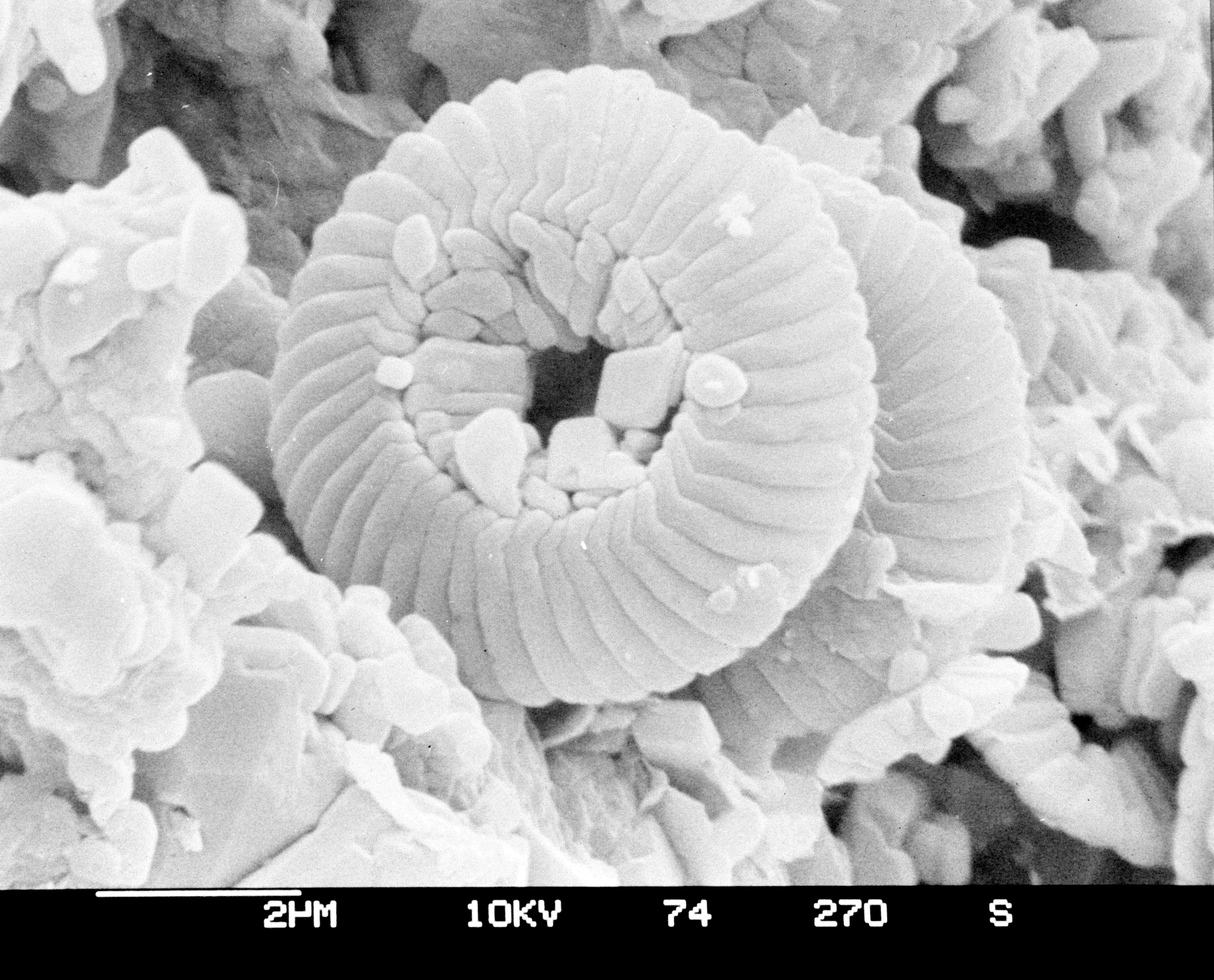 Microfossils from a sediment core of the Deep Sea Drilling Project (DSDP). A scanning electron microscope picture of the calcareous nannofossil, Cyclicargolithus floridanus